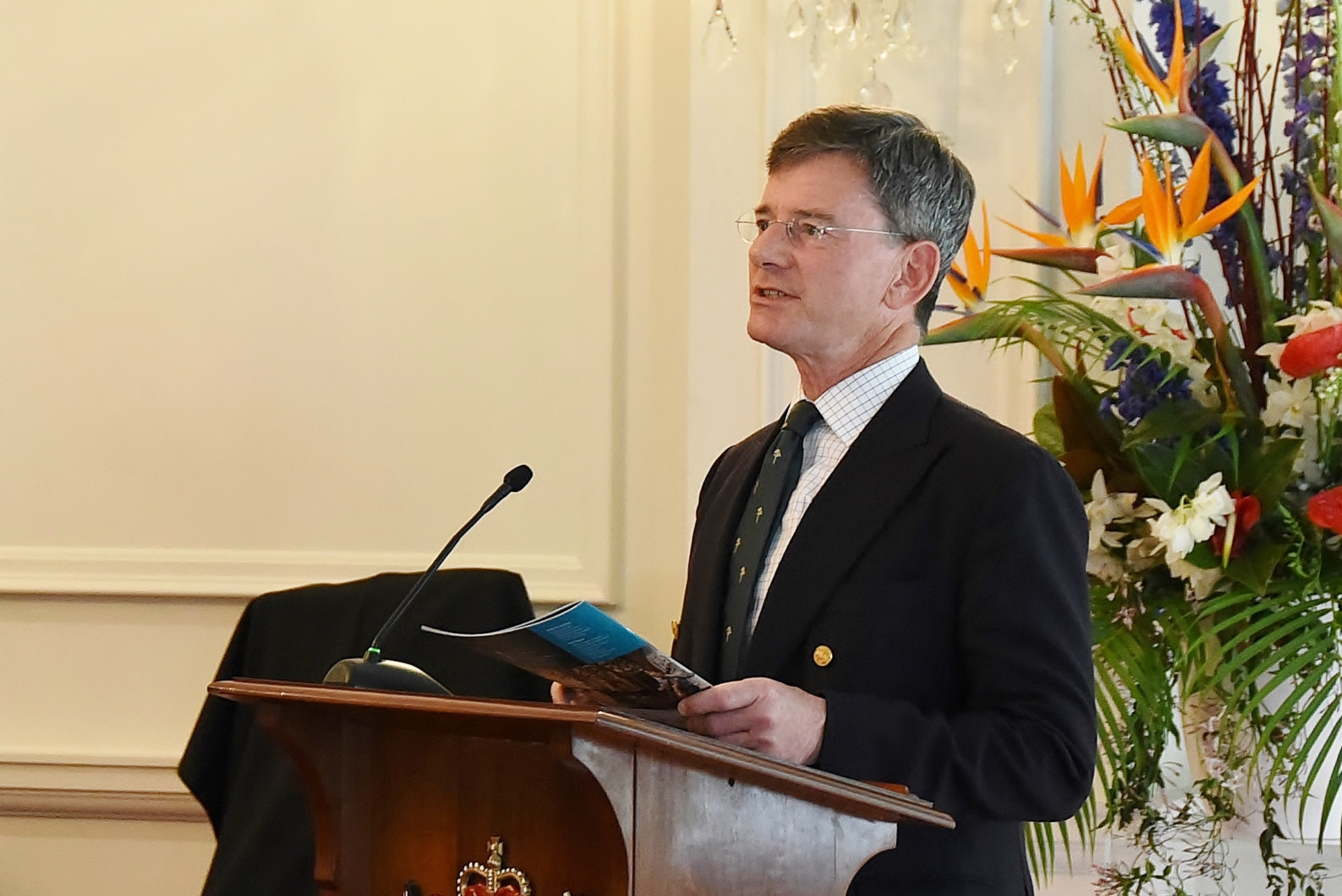 New Zealand String Quartet 30th Anniversary Hon Chris Finlayson speaks